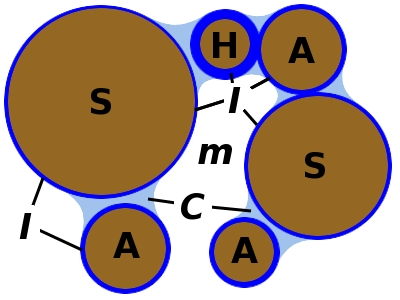 Mechanism of water retention in the soil